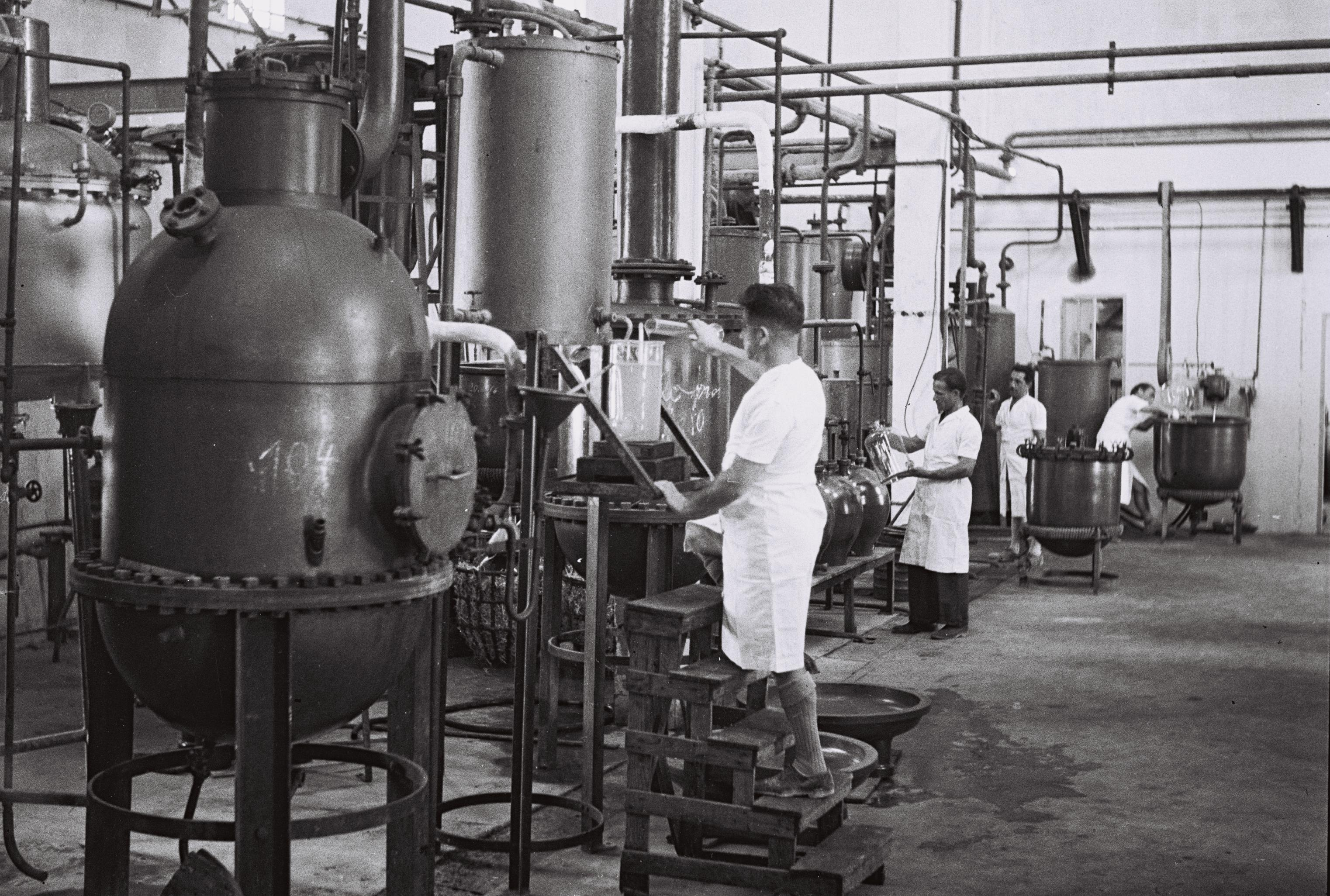 THE MAIN HALL AT THE "FRUTAROM" CHEMICAL PLANT IN HAIFA.